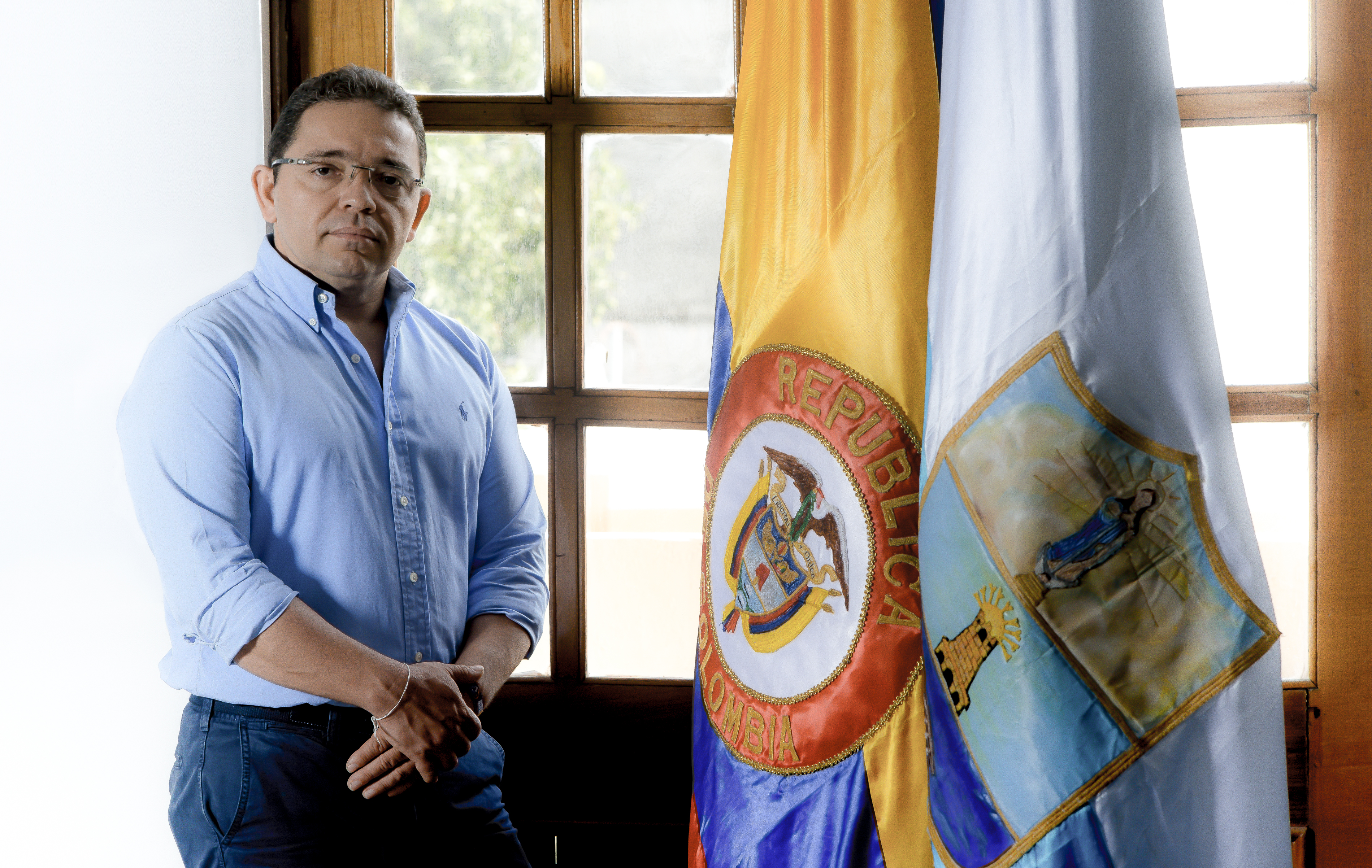 Rafael Martinez